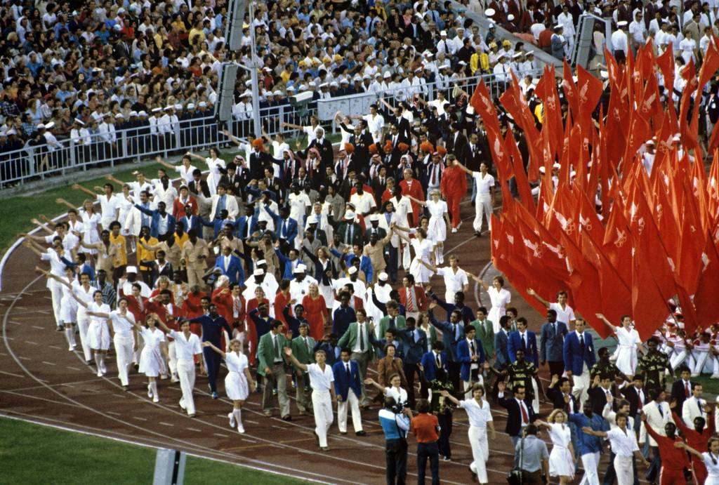 “Festive closing ceremony of the 22nd Olympic games.”. The Festive closing ceremony of the 22nd Olympic games. Moscow's Central Lenin Stadium.